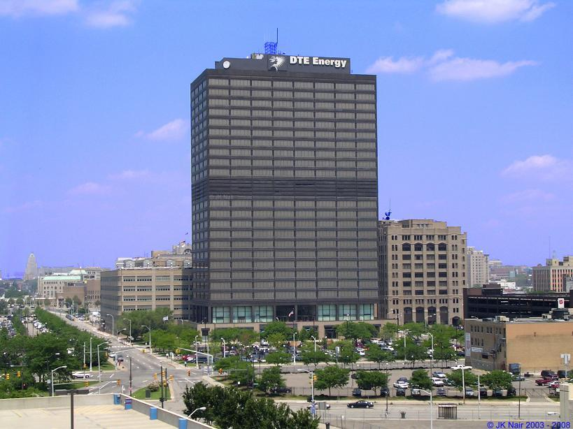 DTE Energy Headquarters in Detroit, Michigan.